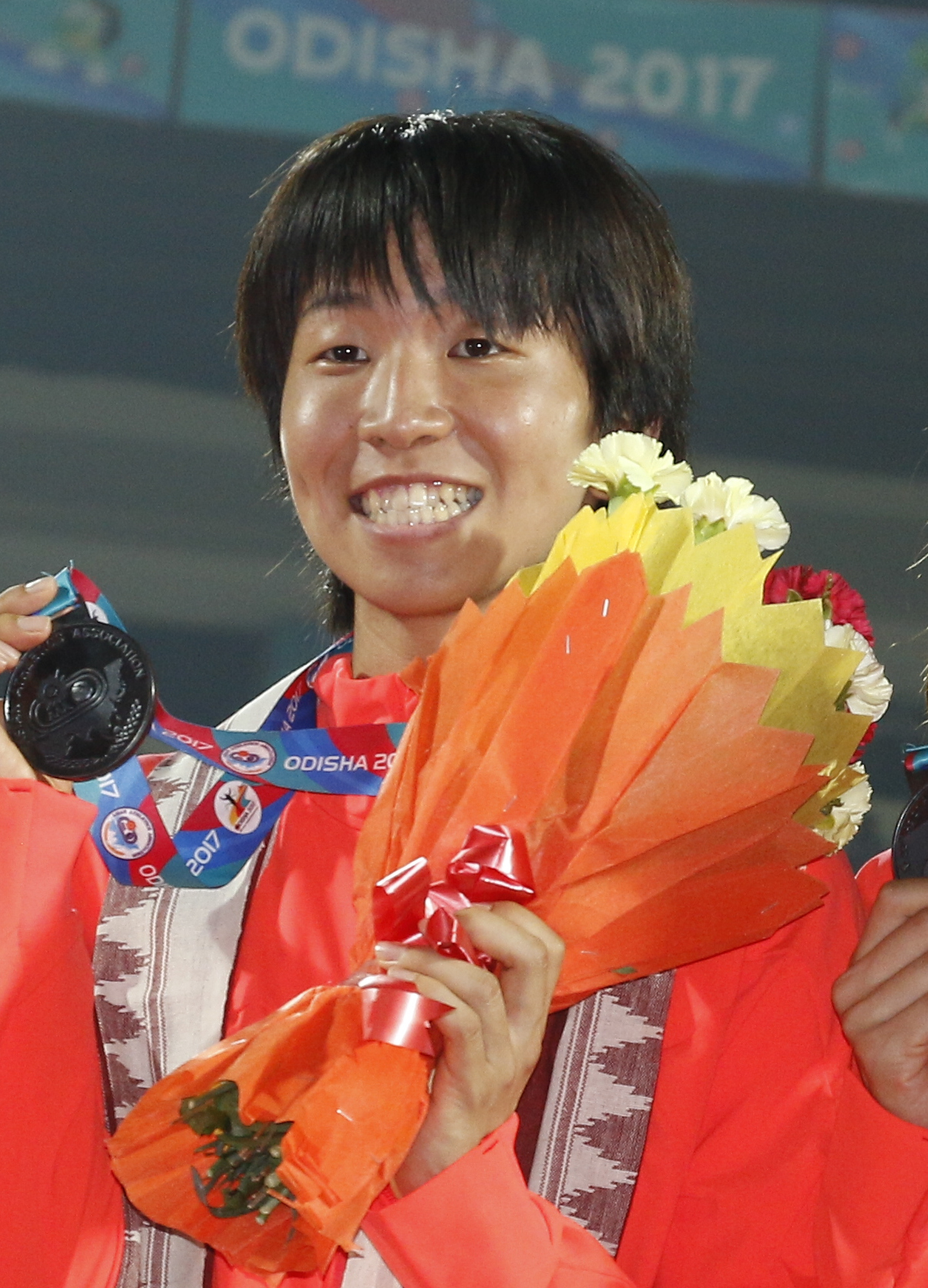 Athletes during 22nd Asian Athletics Championships in Bhubaneswar. Sayaka Aoki 15-12-1986 396 Kana Ichikawa 01-12-1991 391 Seika Aoyama 05-01-1996 402 Manami Kira 23-10-1991